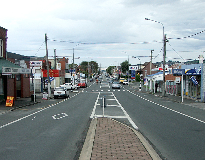 Hillside Road, Caversham, New Zealand, seen from Forbury Corner. Photo by James Dignan (User: Grutness), March 27, 2009.